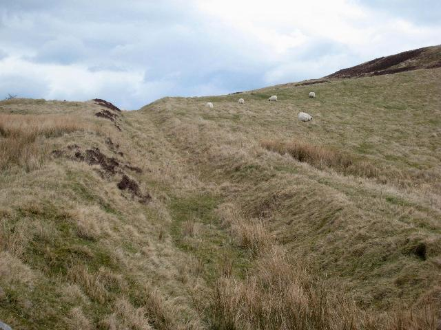 The Stanegate above Vindolanda The Stanegate or Stangate was a Roman Road which carried civilian traffic and trade between Corbridge and Carlisle, and ran a short way to the south of Hadrian's Wall. The name Stanegate is medieval in origin. Just east of this point, the line of the Stanegate is followed by a modern tarmac road.